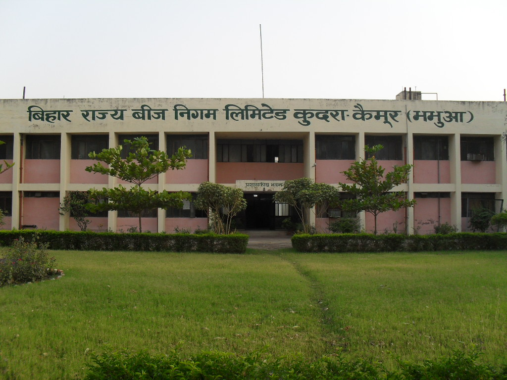 BRBN Ltd. incorporated under the Second National Seed Project